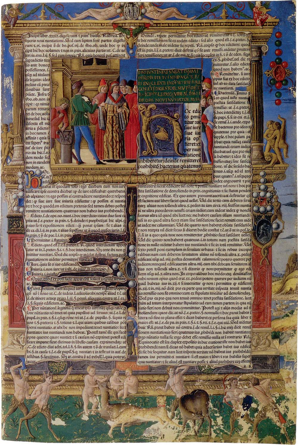 Gotha, Forschungsbibliothek, Mon. typ. 1477, 2° (13), fol. a2r